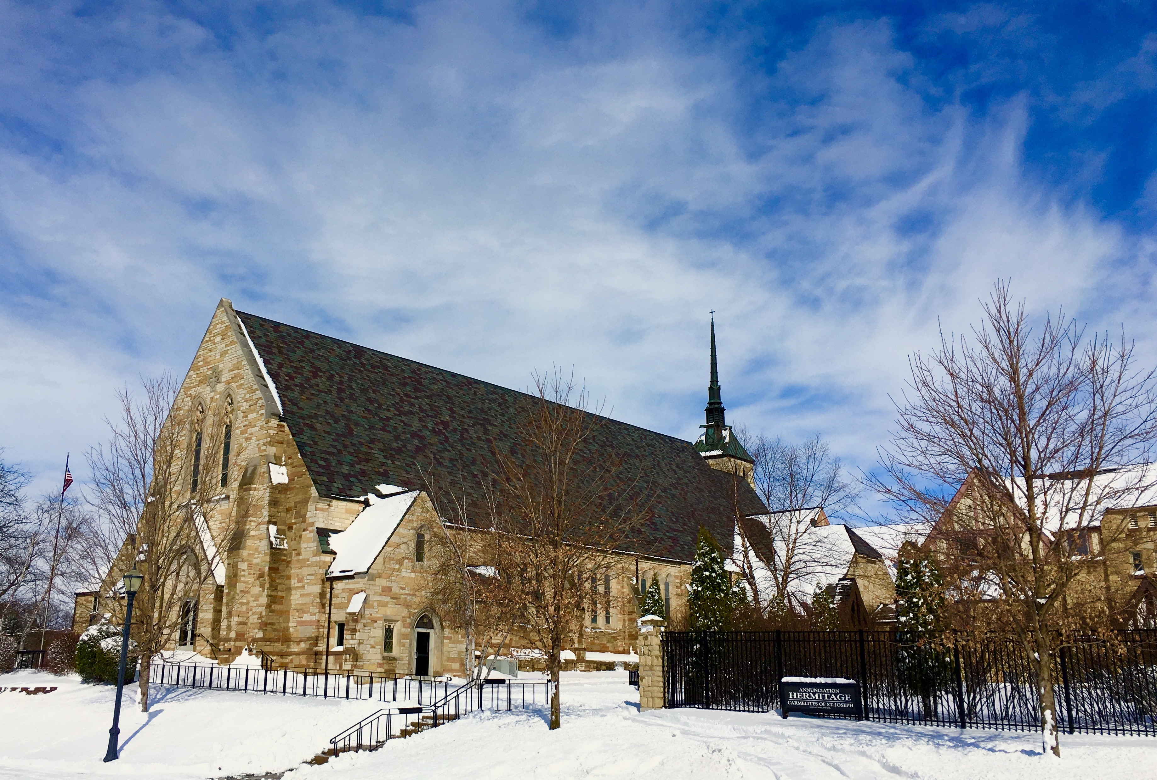 Queen of Angels church in Austin, Minnesota (from the southeast)